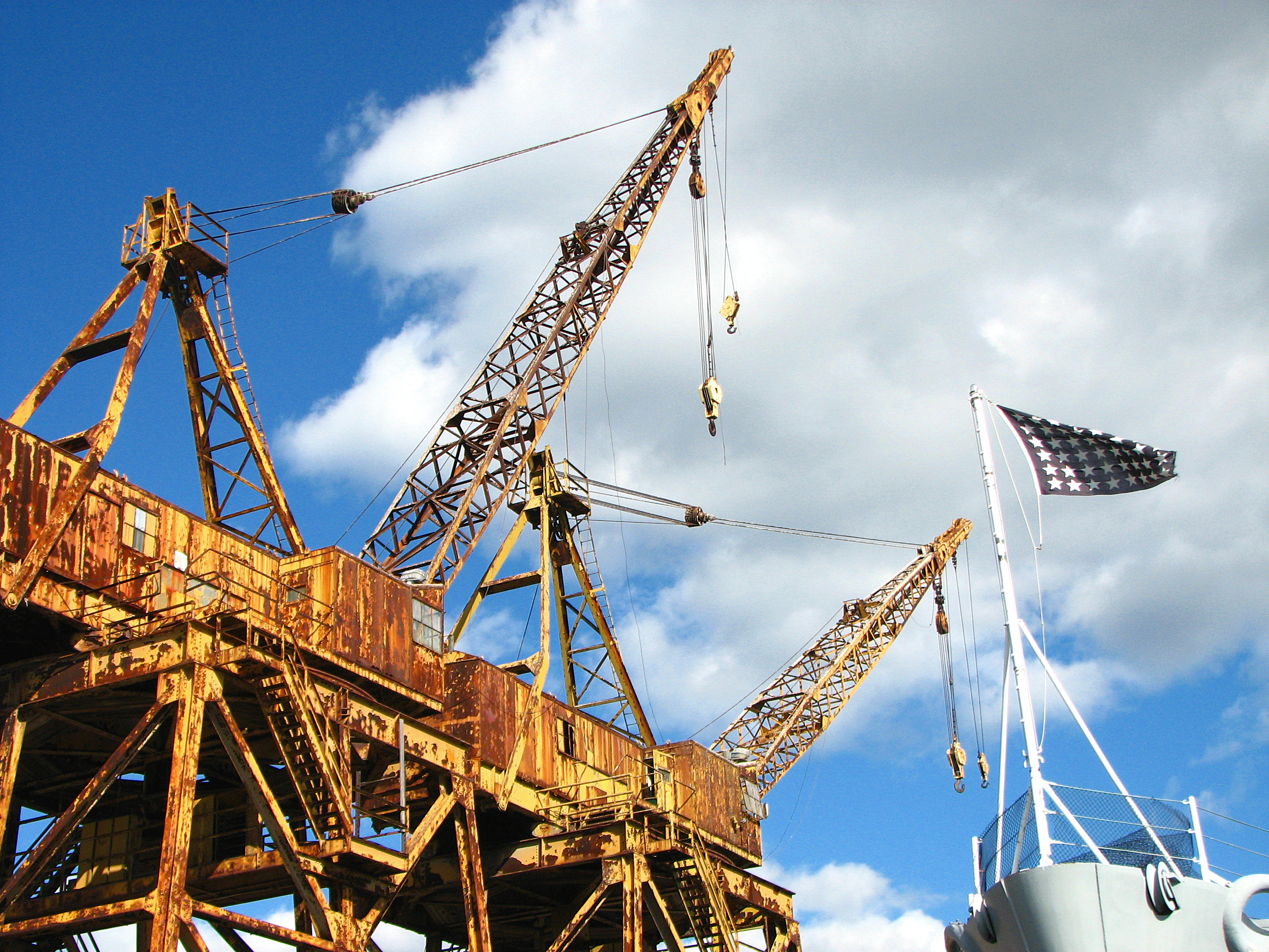 Fore River Shipyard, Quincy